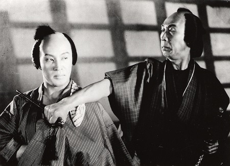 Denjirō Ōkōchi and Minoru Takase in Oatsurae Jirokichi kōshi (御誂治郎吉格子) directed by Daisuke Itō - 1931